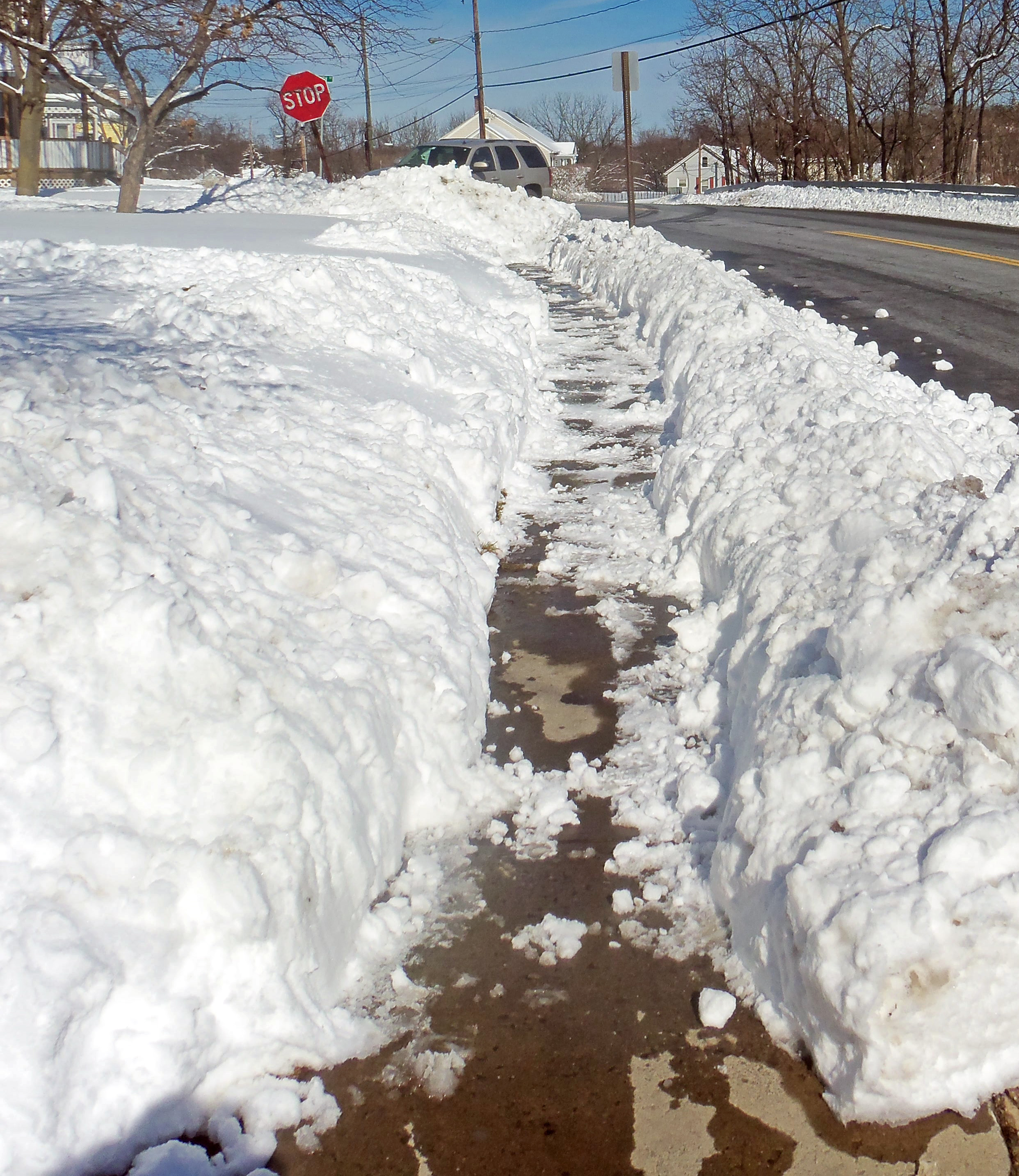 A trench created in the snow by shoveling a sidewalk in Walden, NY, USA, the day after the February 2013 nor'easter.